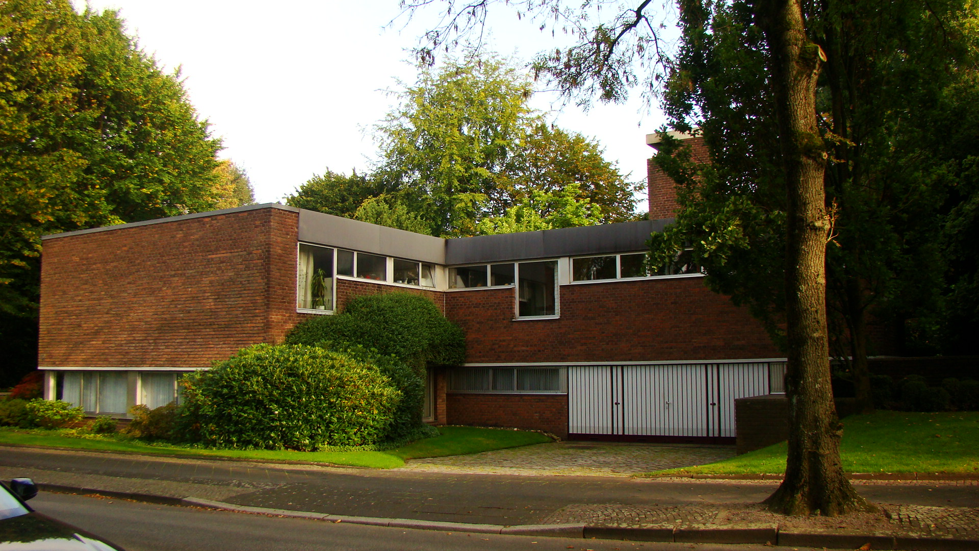 Monument of architecture, Arnikastraße 38, Bochum, Germany. Denkmalnummer A 622